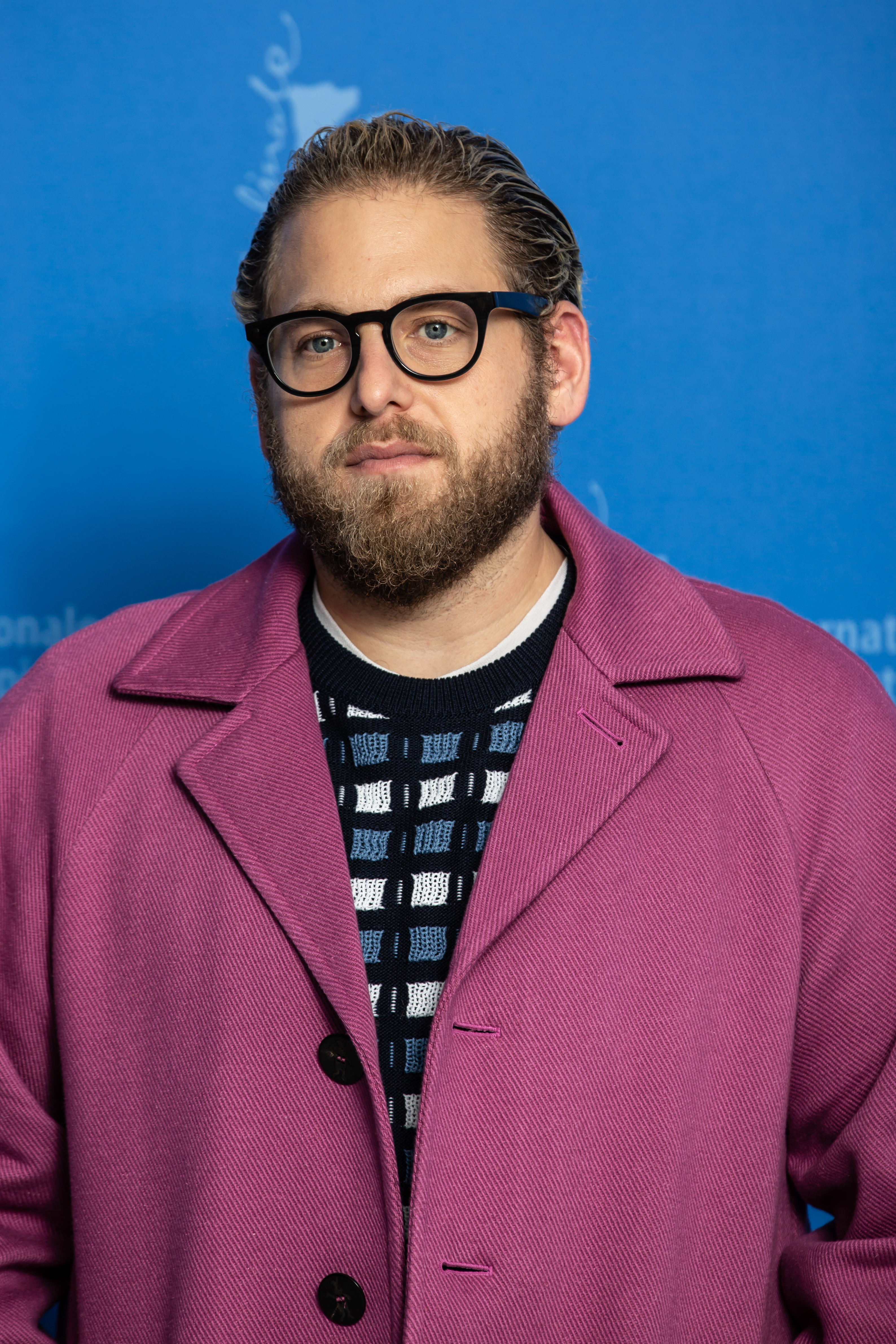 Actor and director Jonah Hill at the Berlinale 2019